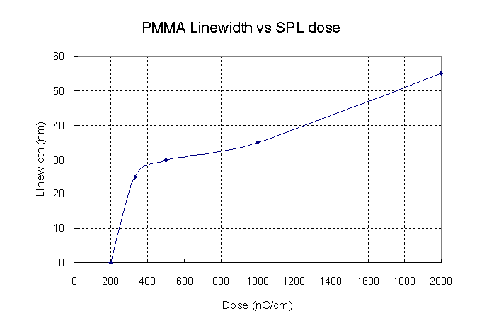 Ref: K Wilder et al., J. Vac. Sci. Tech. B 16, 3864 (1998).